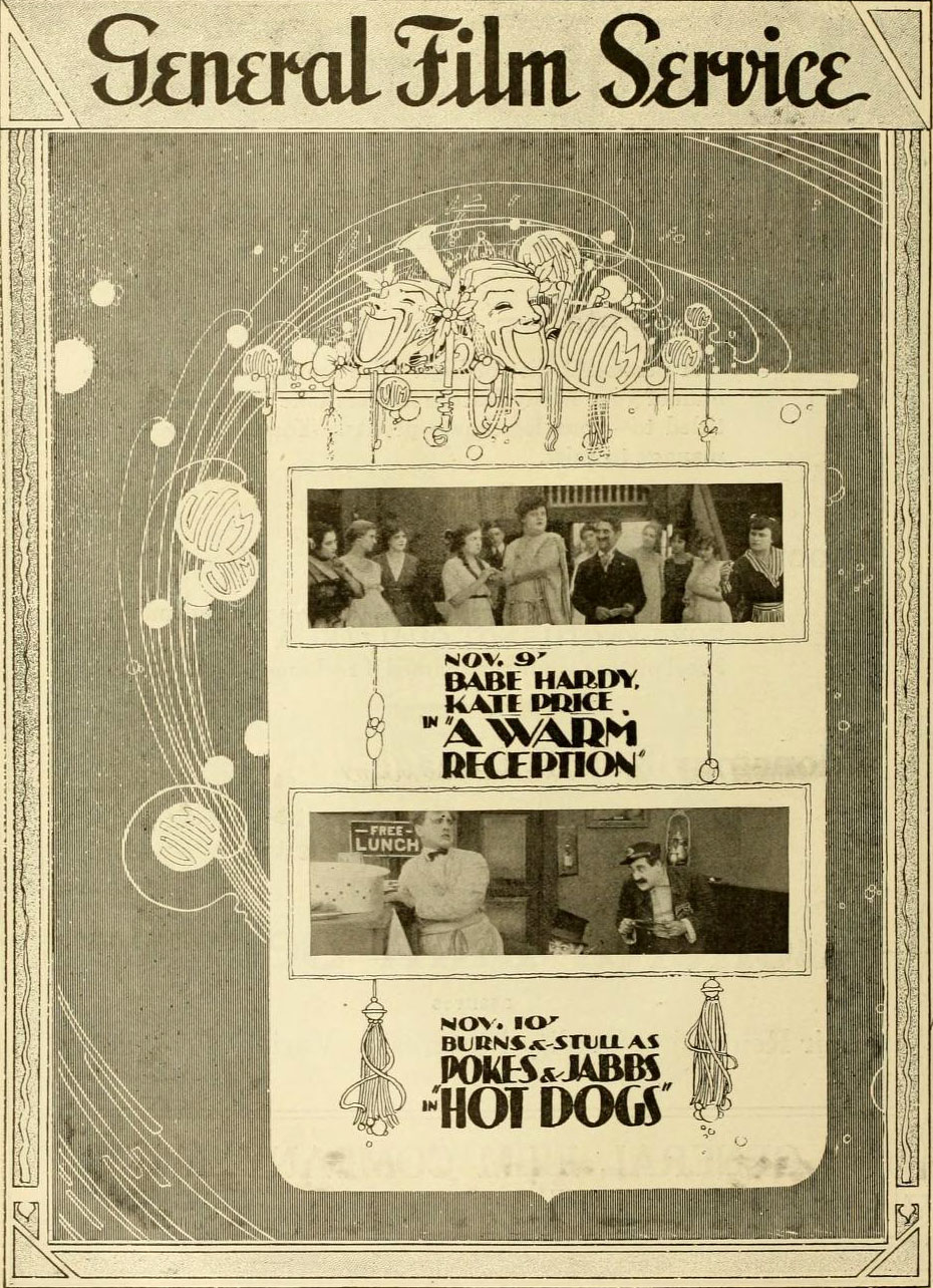 Advertisement in Moving Picture World for the American comedy short film A Warm Reception (1916).